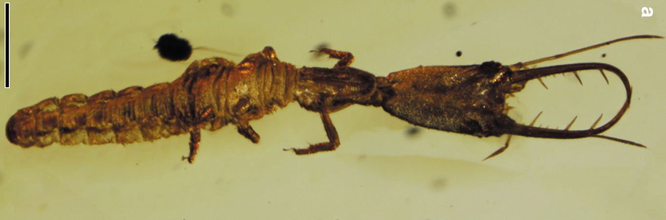 Diversity of the larvae of Myrmeleontiformia in mid-Cretaceous Burmese amber. A) Macleodiella electrina gen. et sp. nov., holotype. Scale bar: 0.5 mm